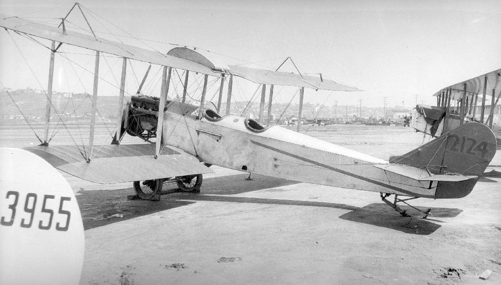 Standard J-1 N2124 with Hispano-Suiza engine with other aircraft including other Standards and two Ryan Broughams in the far background